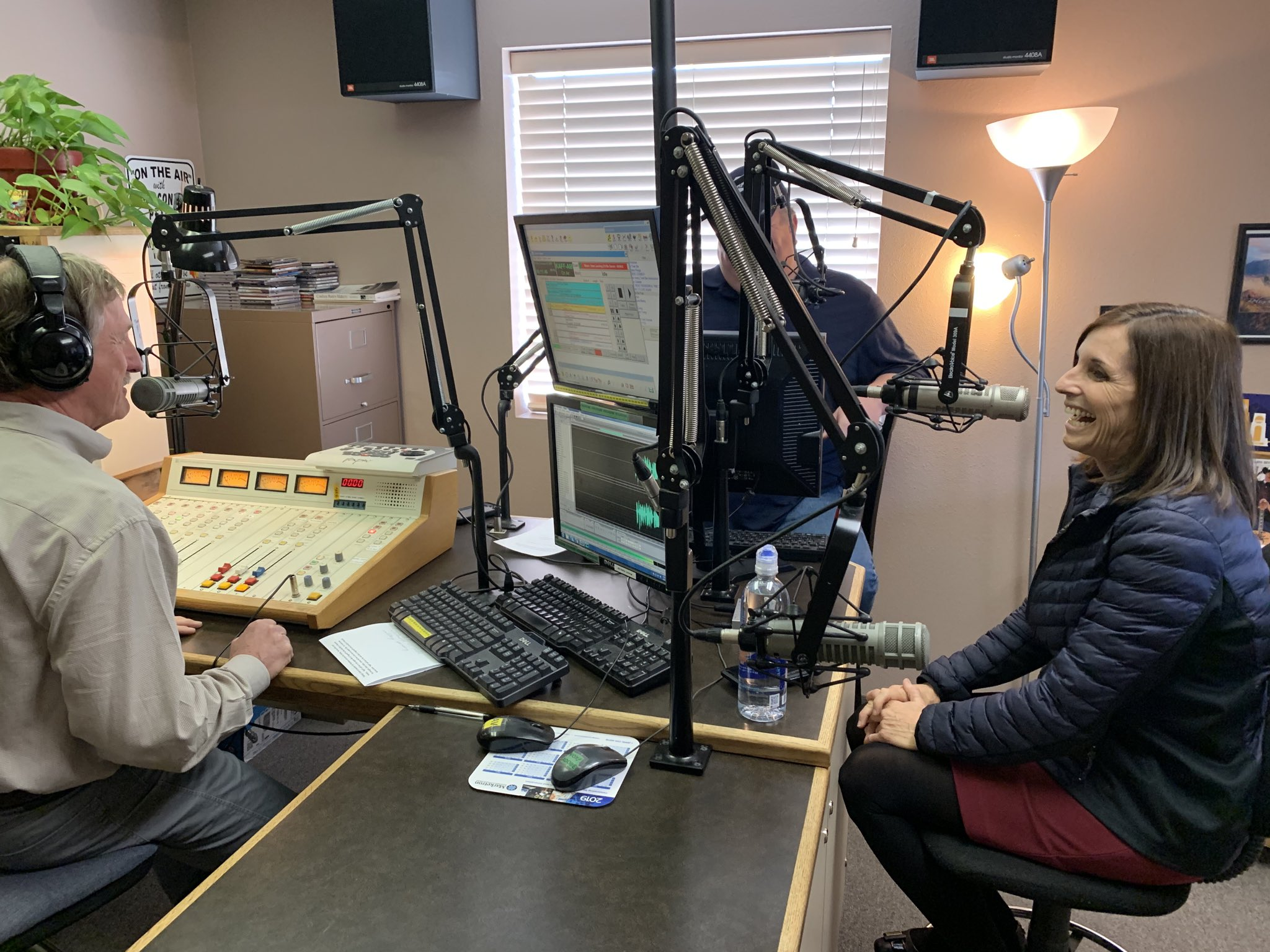 Catching up with KAFF Radio in Flagstaff this morning.